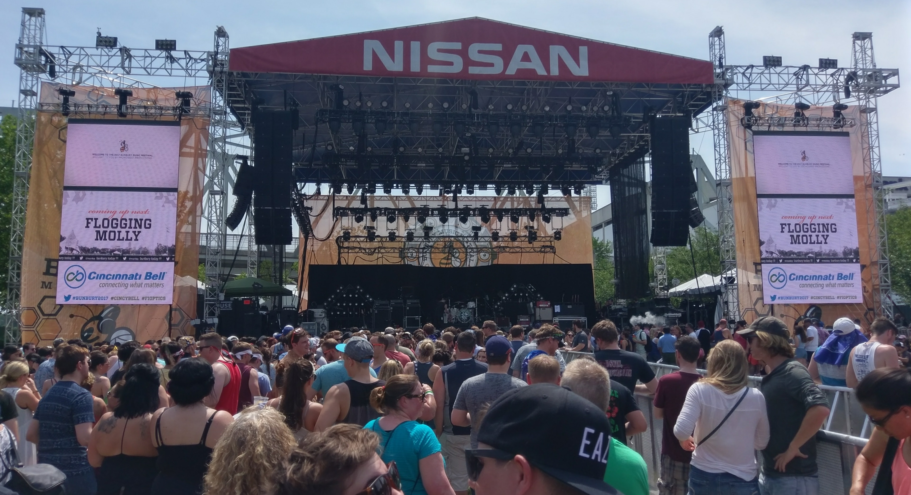 Taken at Bunbury Music Festival at Sawyer Point Park & Yeatman's Cove in Cincinnati, Ohio on Sunday, June 4, 2017.